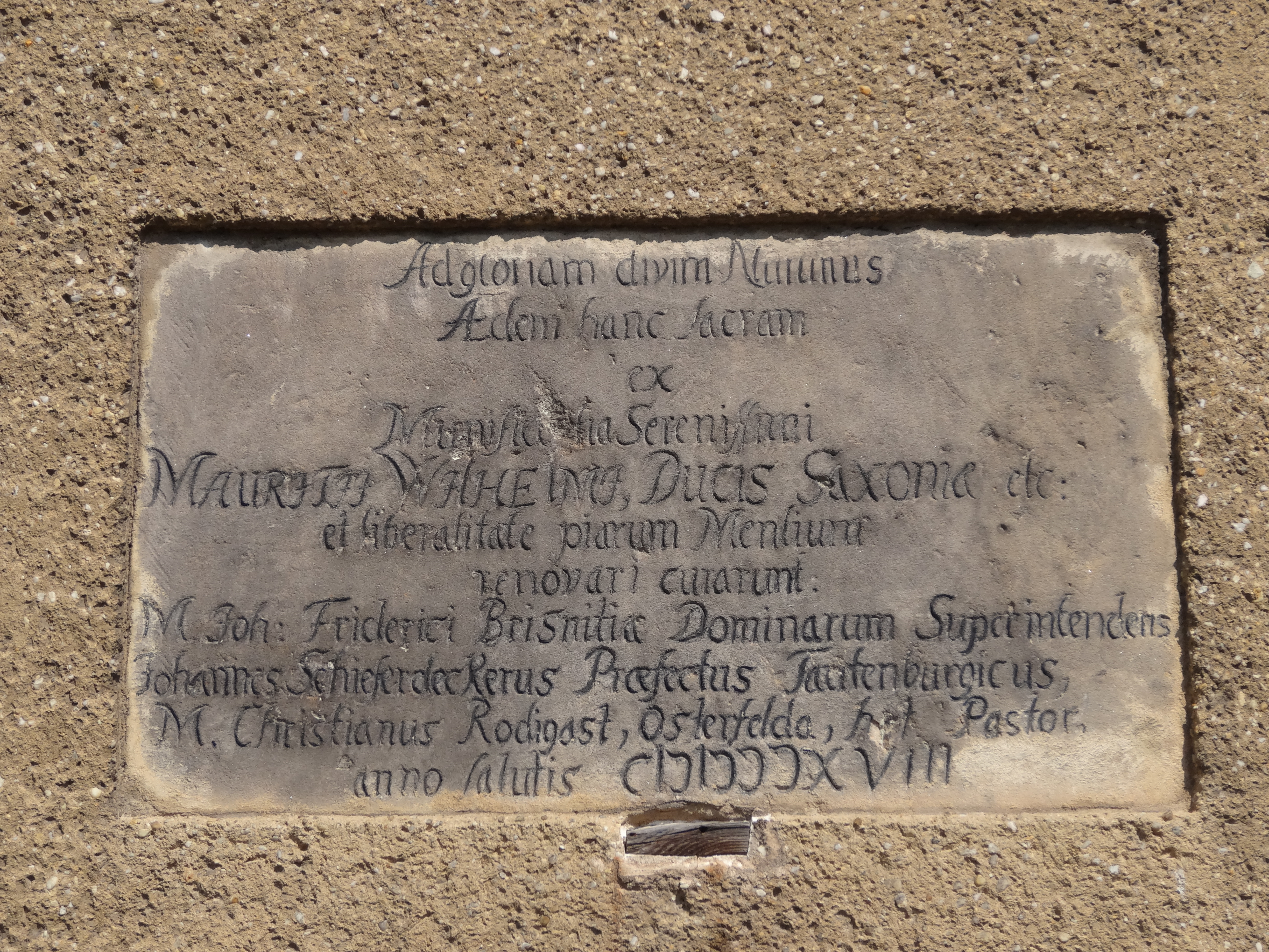 Inscription on the church in Poxdorf, Thuringia, Germany